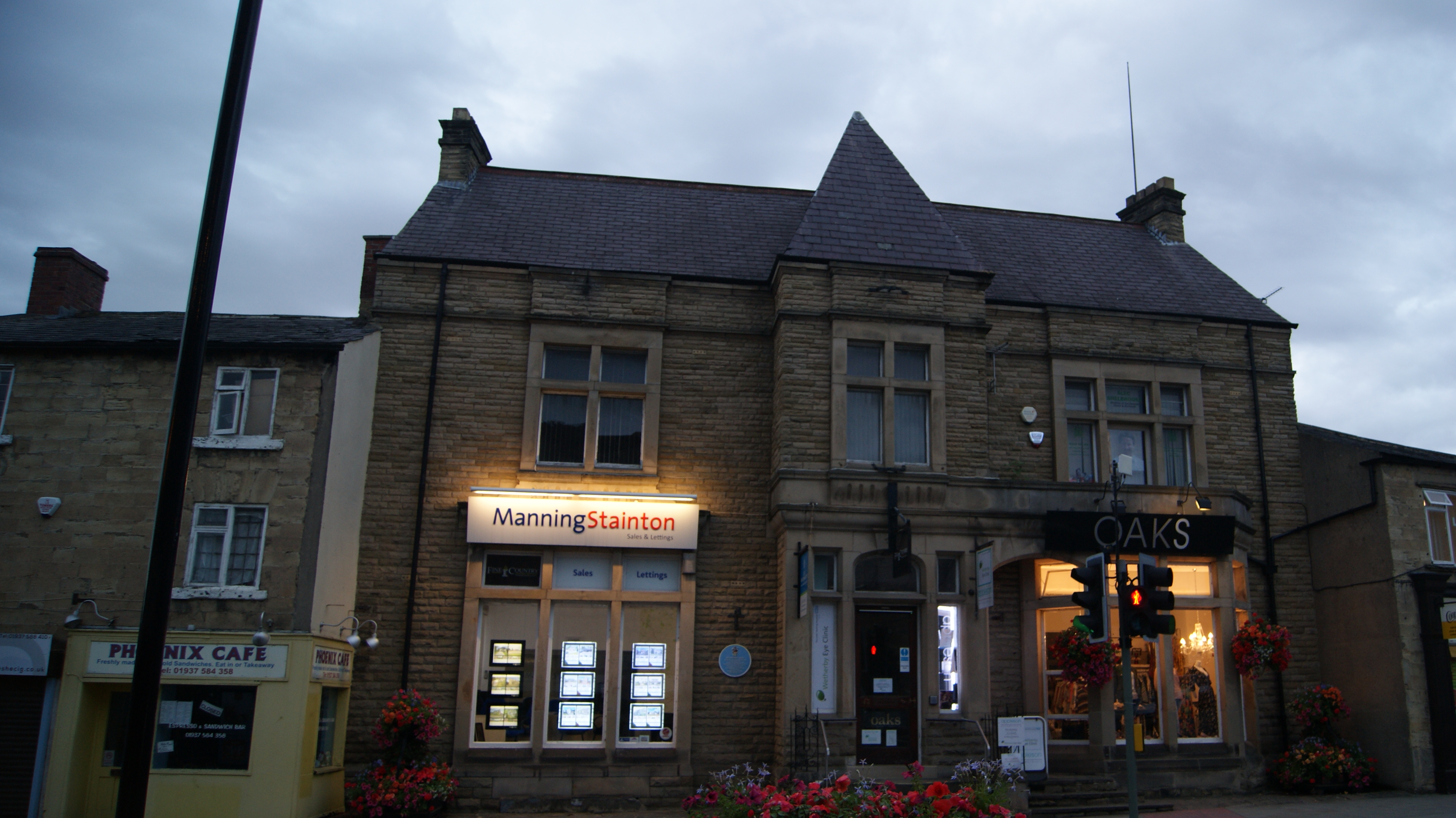 Former Conservative club, Westgate, Wetherby. For a long time this was the Halifax bank (right) and estate agents (left). Following the acquisition of the Leeds Perm' Halifax had two branches in the town; the other a hundred or so yards away on Market Place. The original bank eventually closed and in the late 2000s Halifax divested of its estate agency arm. The estate agent side is still that, there is an optician shop to the rear, a clothing shop to the right of the building. The upper floor is the constituency office of local MP Alec Shelbrooke. Taken on the evening of Wednesday the 26th of July 2017.